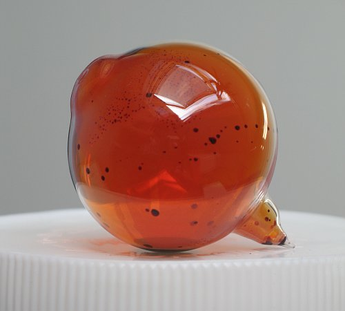 Bromine liquid and bromine vapor in a glass sphere